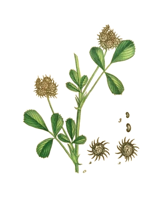 Illustration of Medicago polymorpha.